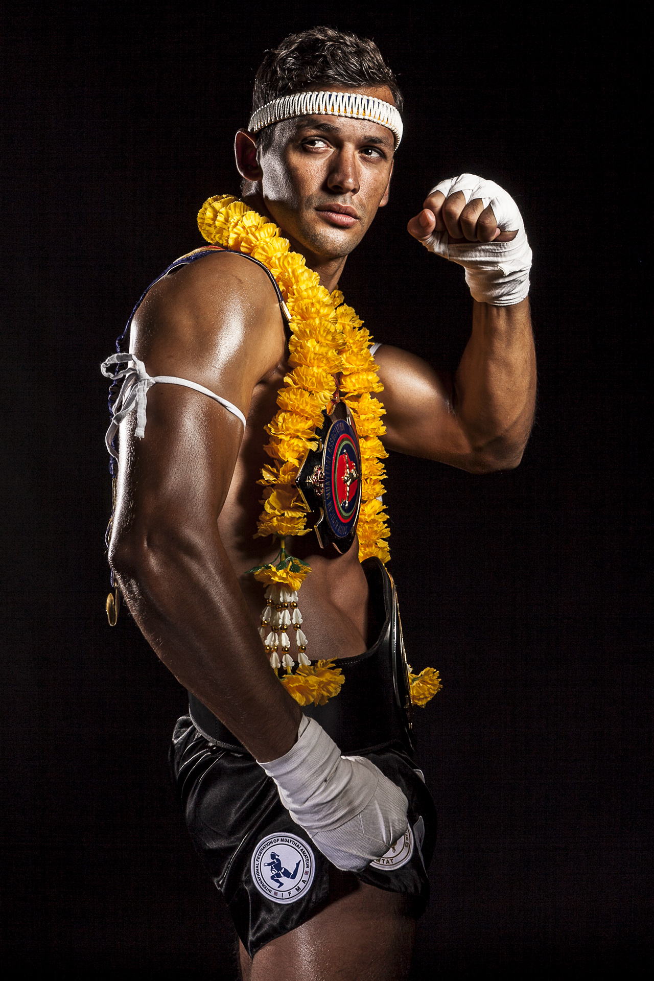 Jarred Rothwell Muaythai Fighter